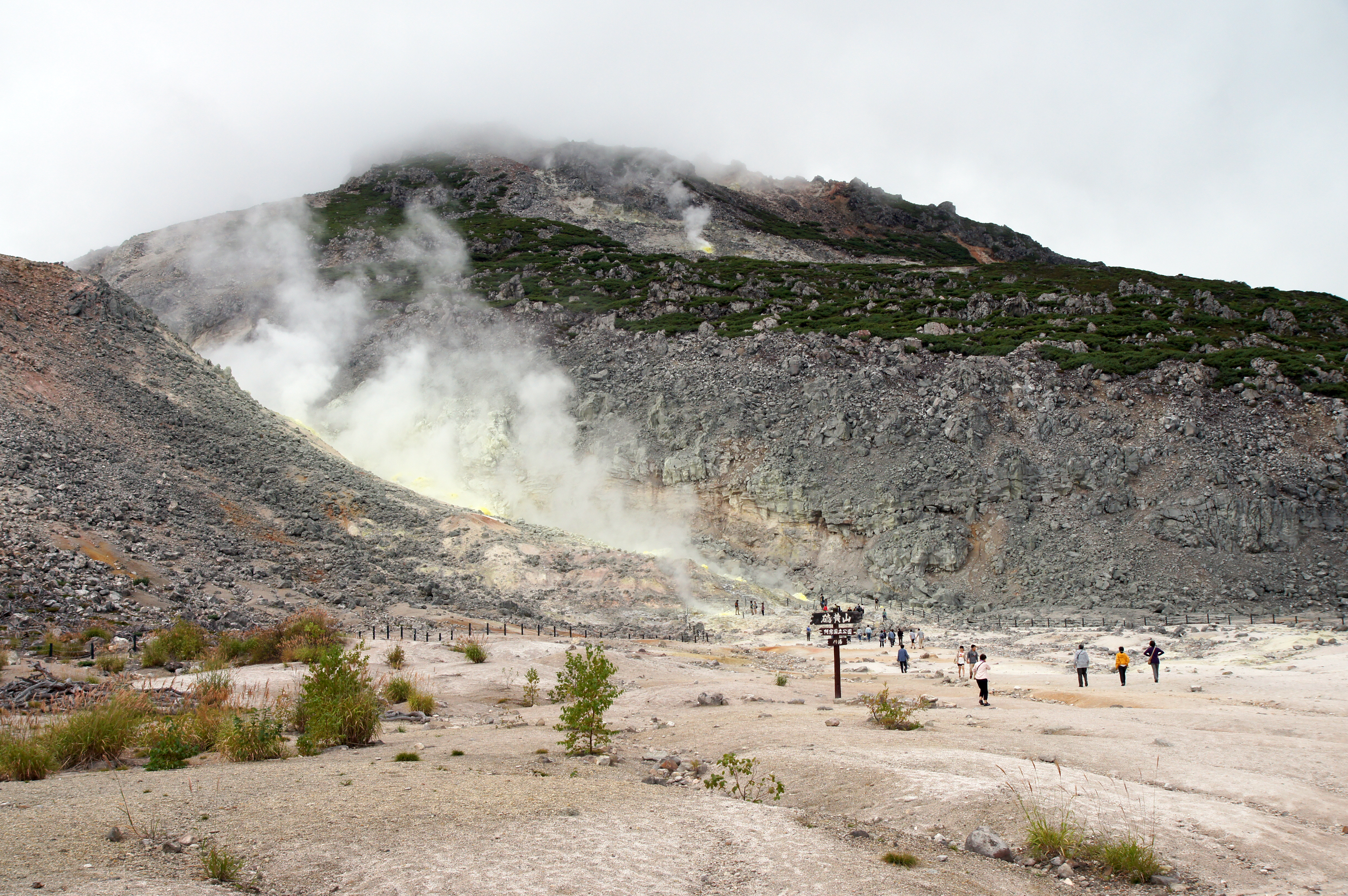 Mount Iō in Teshikaga, Hokkaido prefecture, Japan